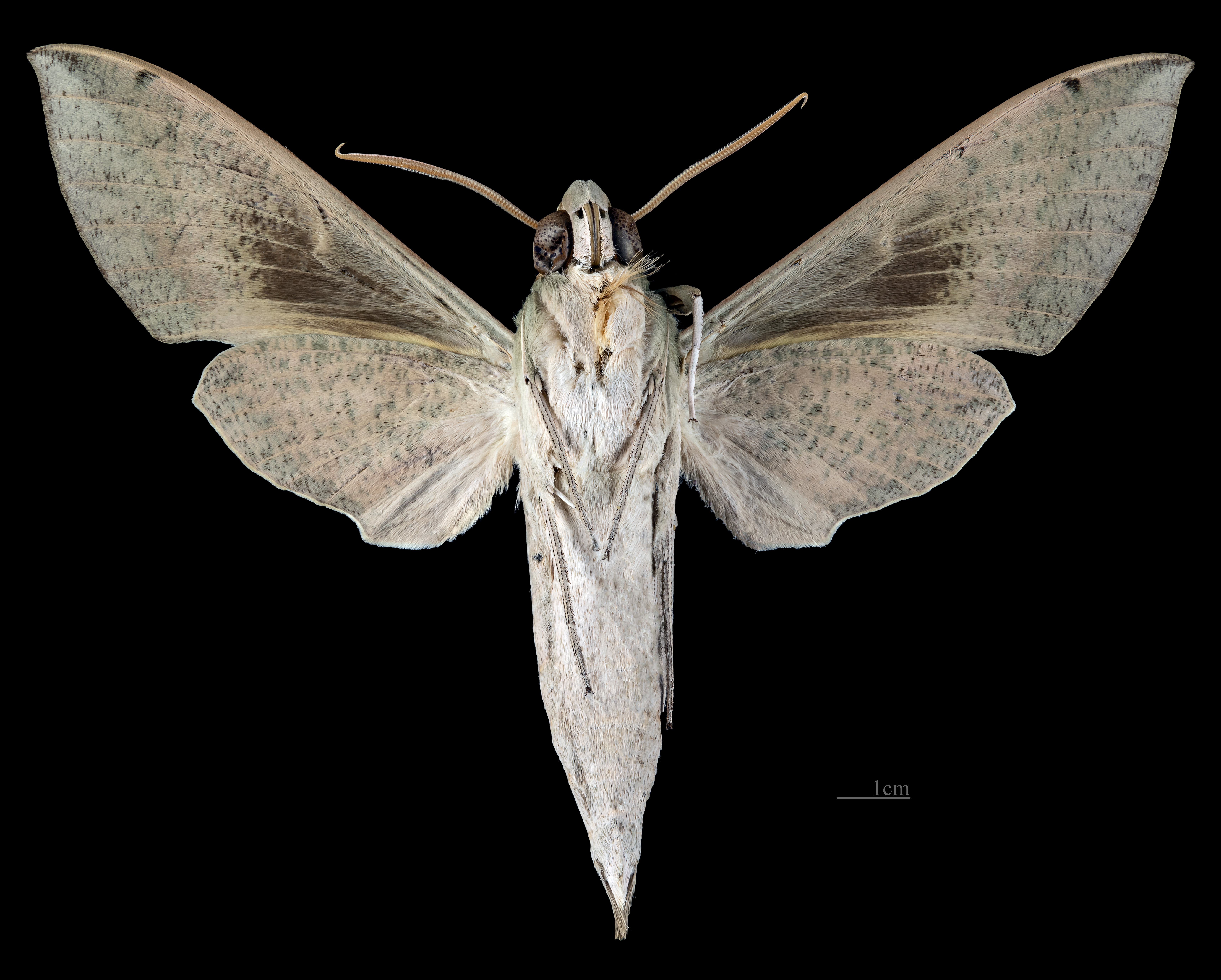 Theretra indistincta - △ Ventral side Collection of the Mathematician Laurent Schwartz